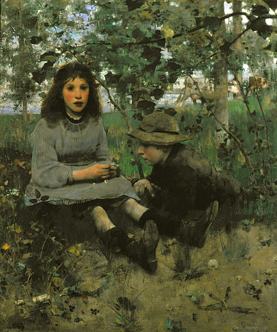 A Daydream